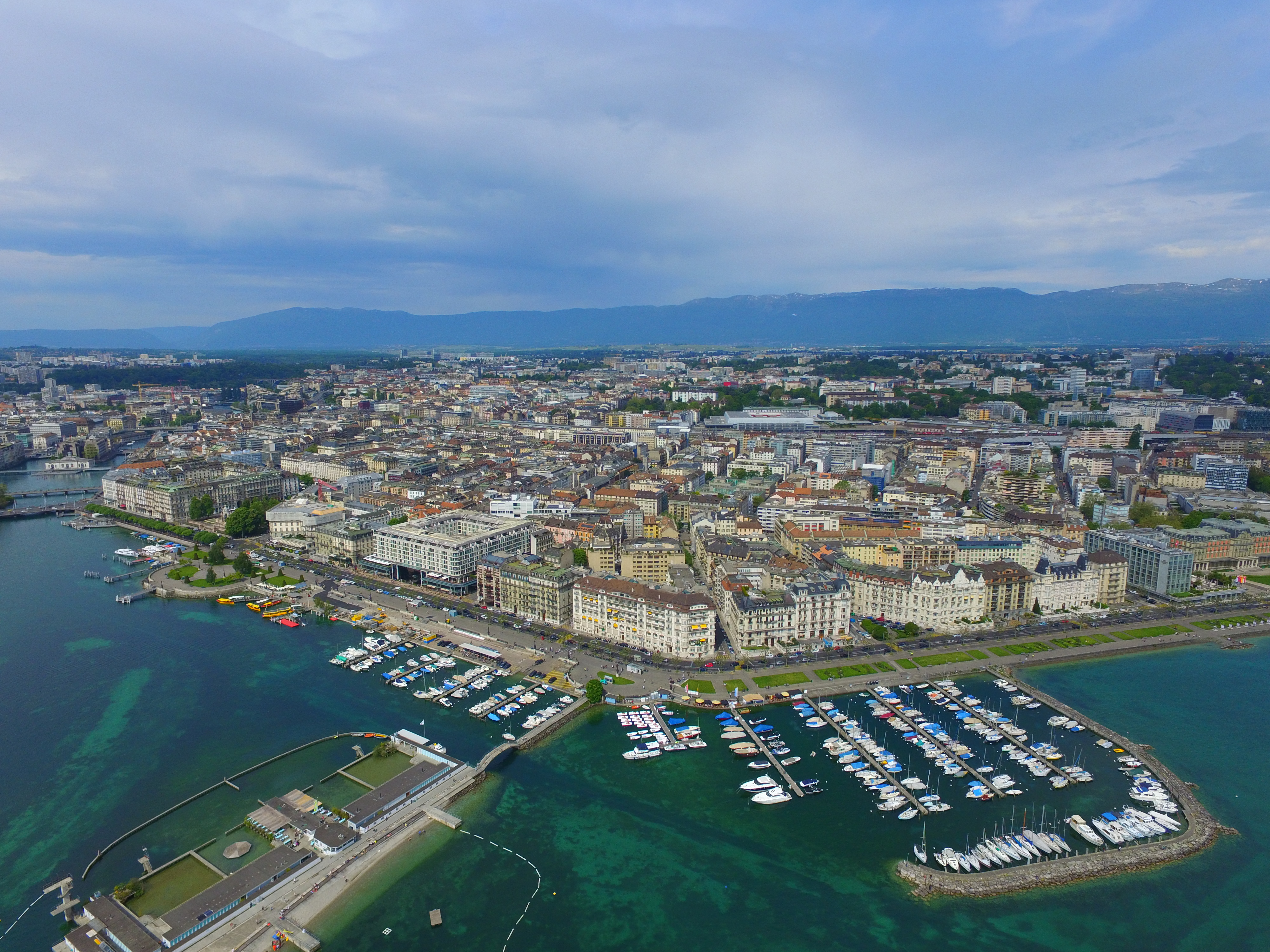 Geneva, aerial view